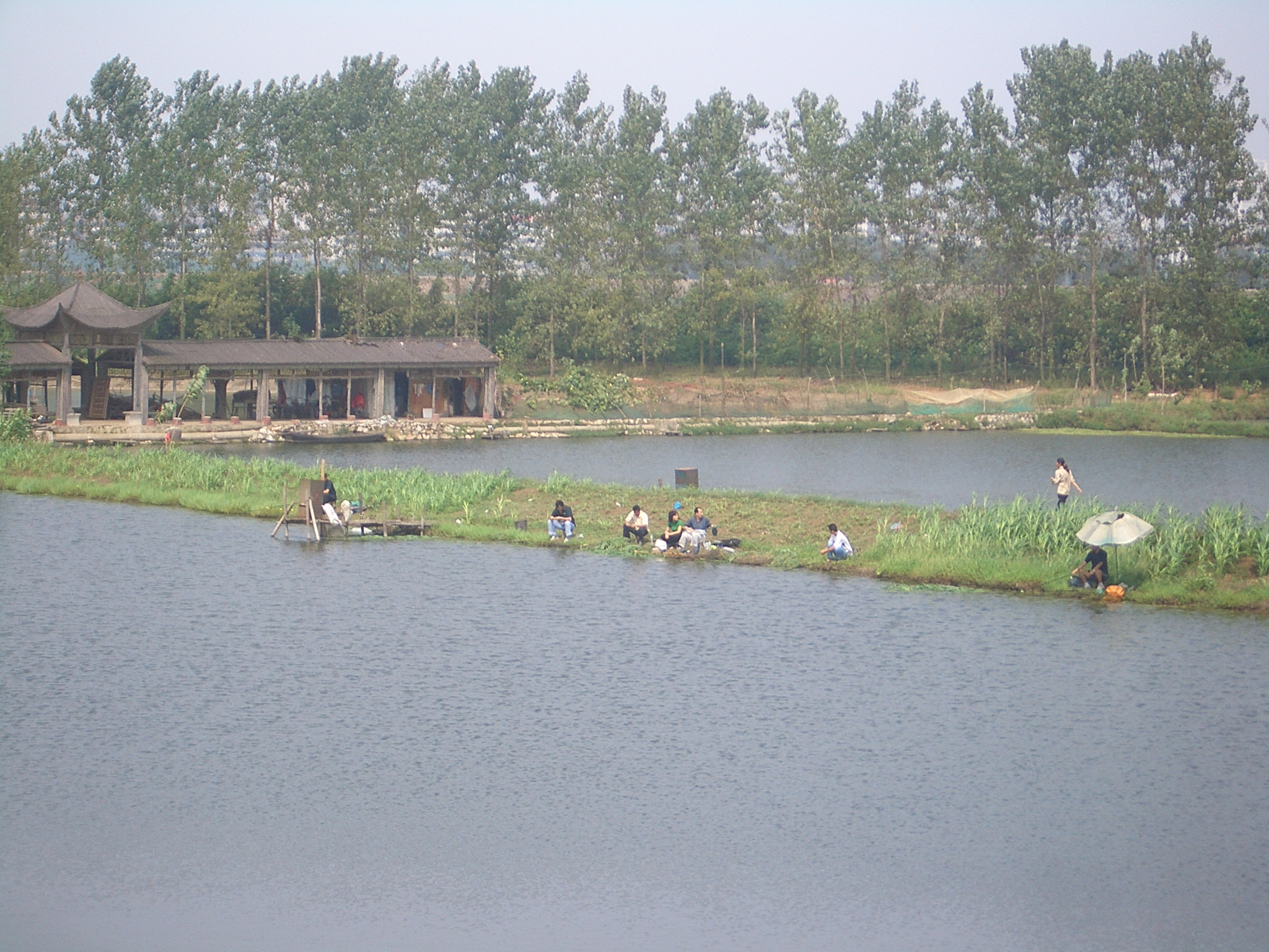 People fishing on a system of ponds constructed onr a bay of the Daye Lake, on, on the south sude of the Daye Town (Huangshi CIty, Hubei). Not sure if one has to buy a ticket to fish there, or if it's free-for-all.